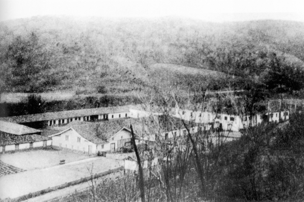 Arcozelo farm, previously known as Freguesia farm. The master house, slave houses and warehouses complex of a Brazilian coffee plantation in Paty do Alferes where happenned the Manuel Congo slave revolt and mass scape in 1838. Nowadays known as Aldeia de Arcozelo, a center of teatrical activities.